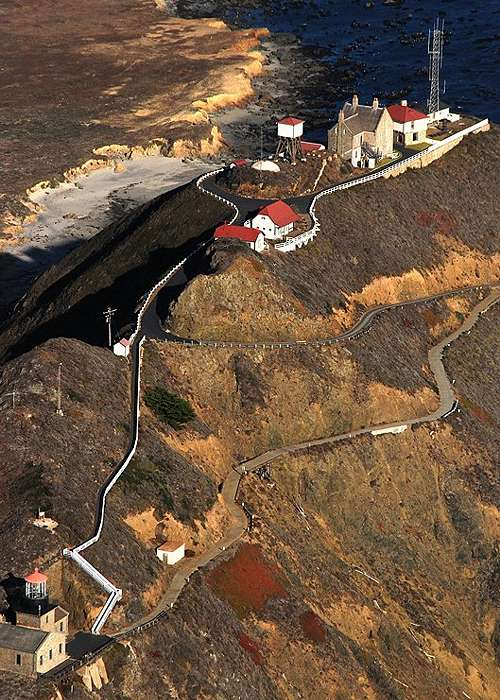 Aerial photo: Point Sur Lighthouse on the Big Sur coast in Monterey County, California..